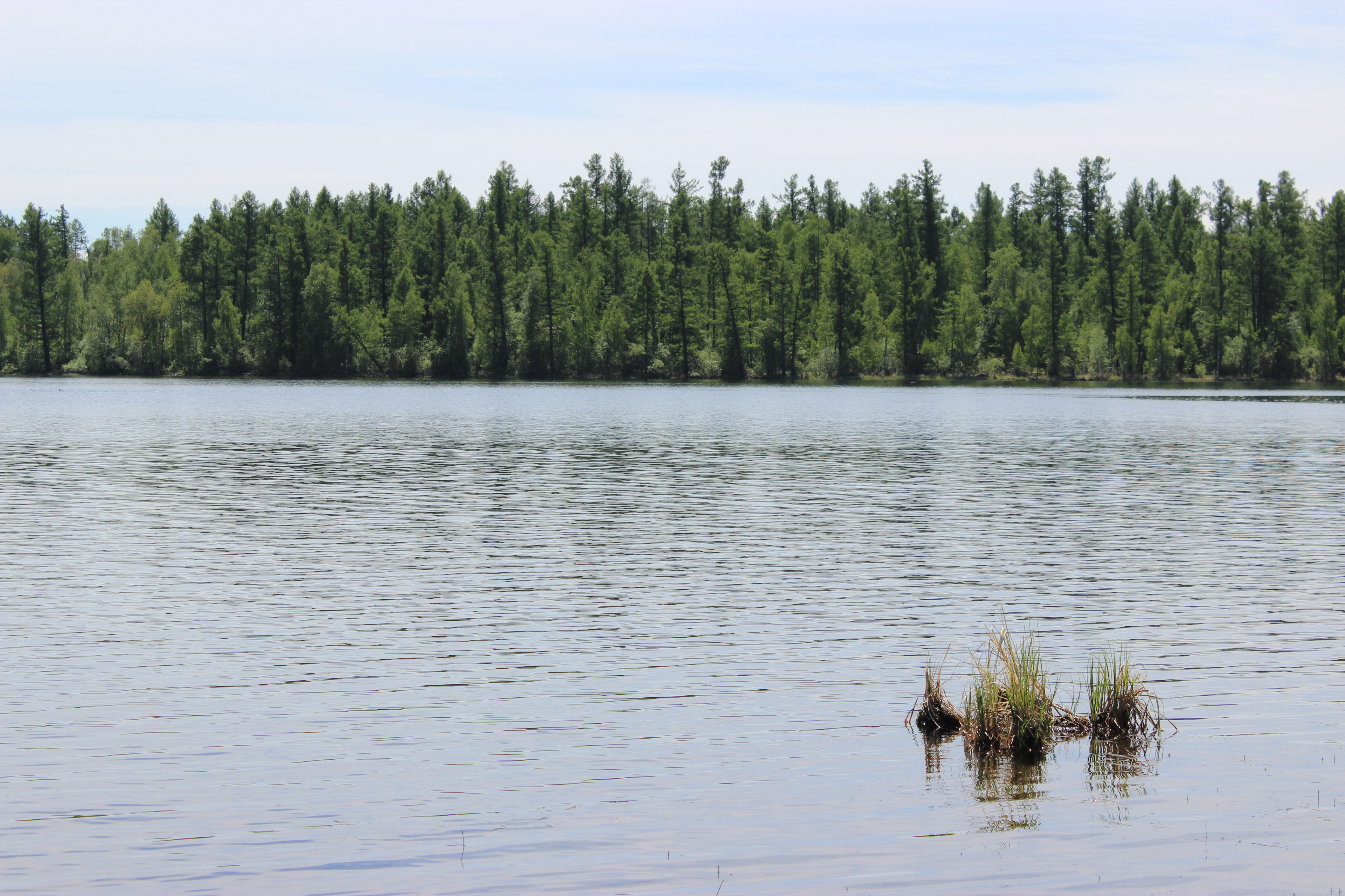 Lake Azas Tozhinsky District of the Republic of Tywa